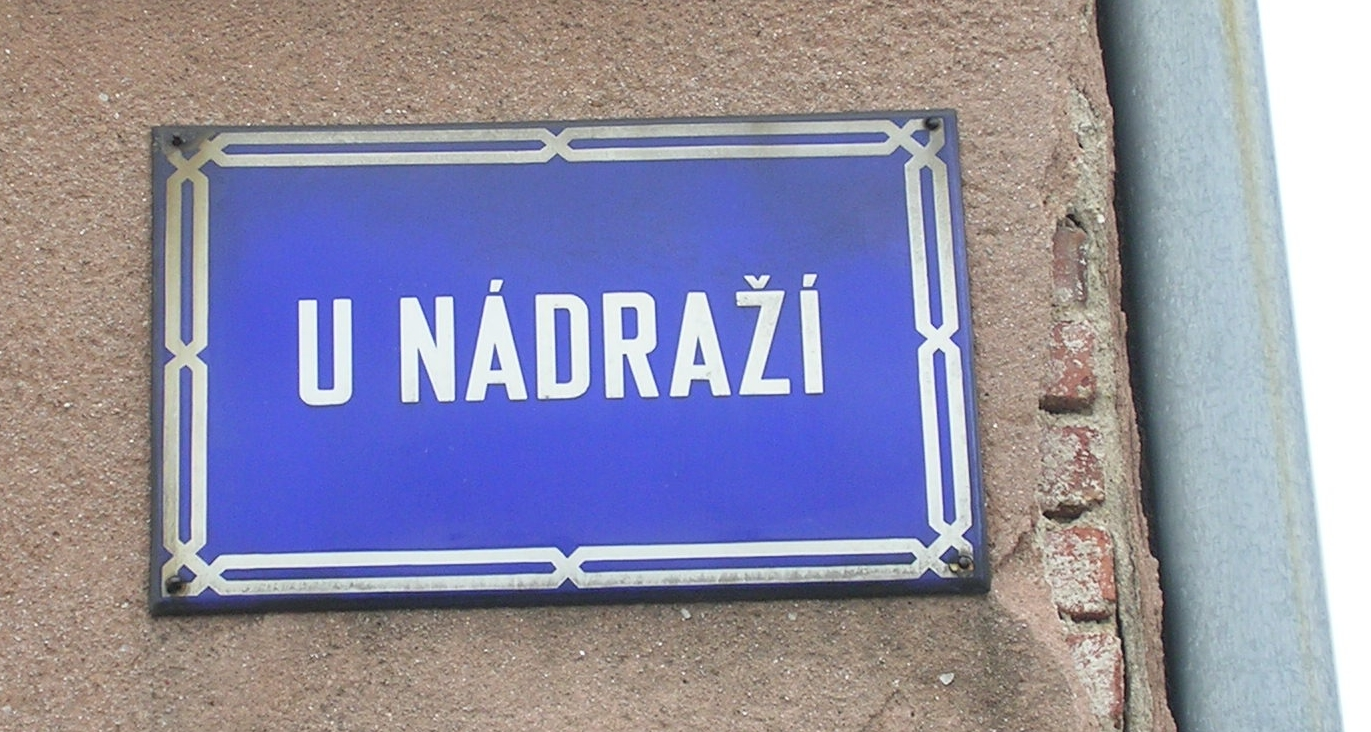 Street sign in U nádraží street in Jindřichův Hradec, Czech Republic